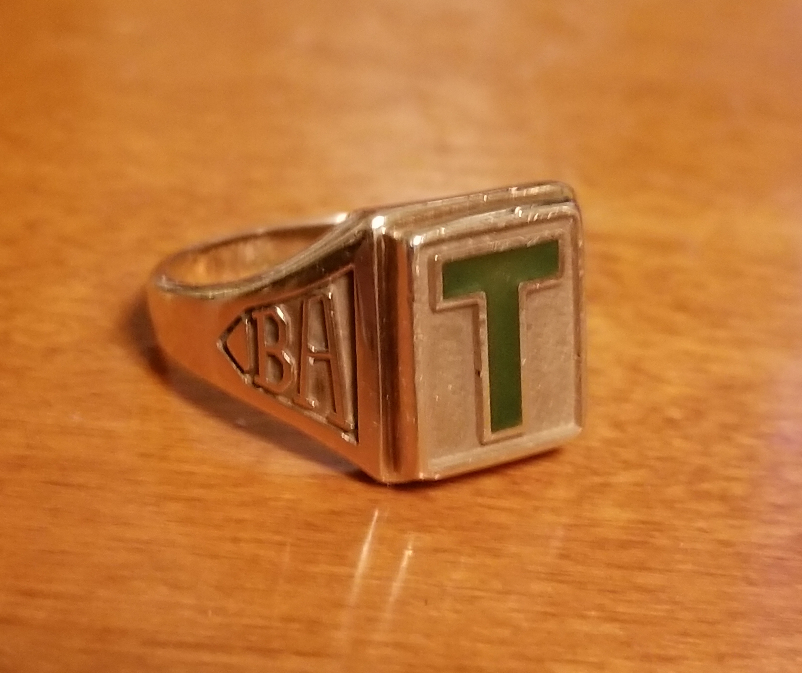 St. Thomas University (Canada) T-ring